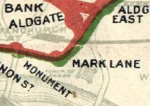 A portion of the 1908 map of the electric underground railways of London, showing Mark Lane station (now disused)